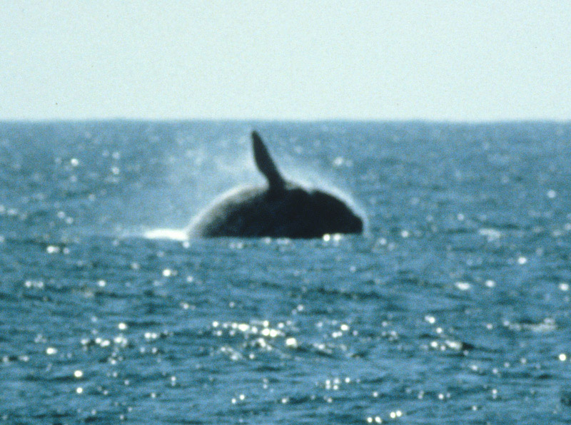 North Pacific Right Whale - A breach, far away